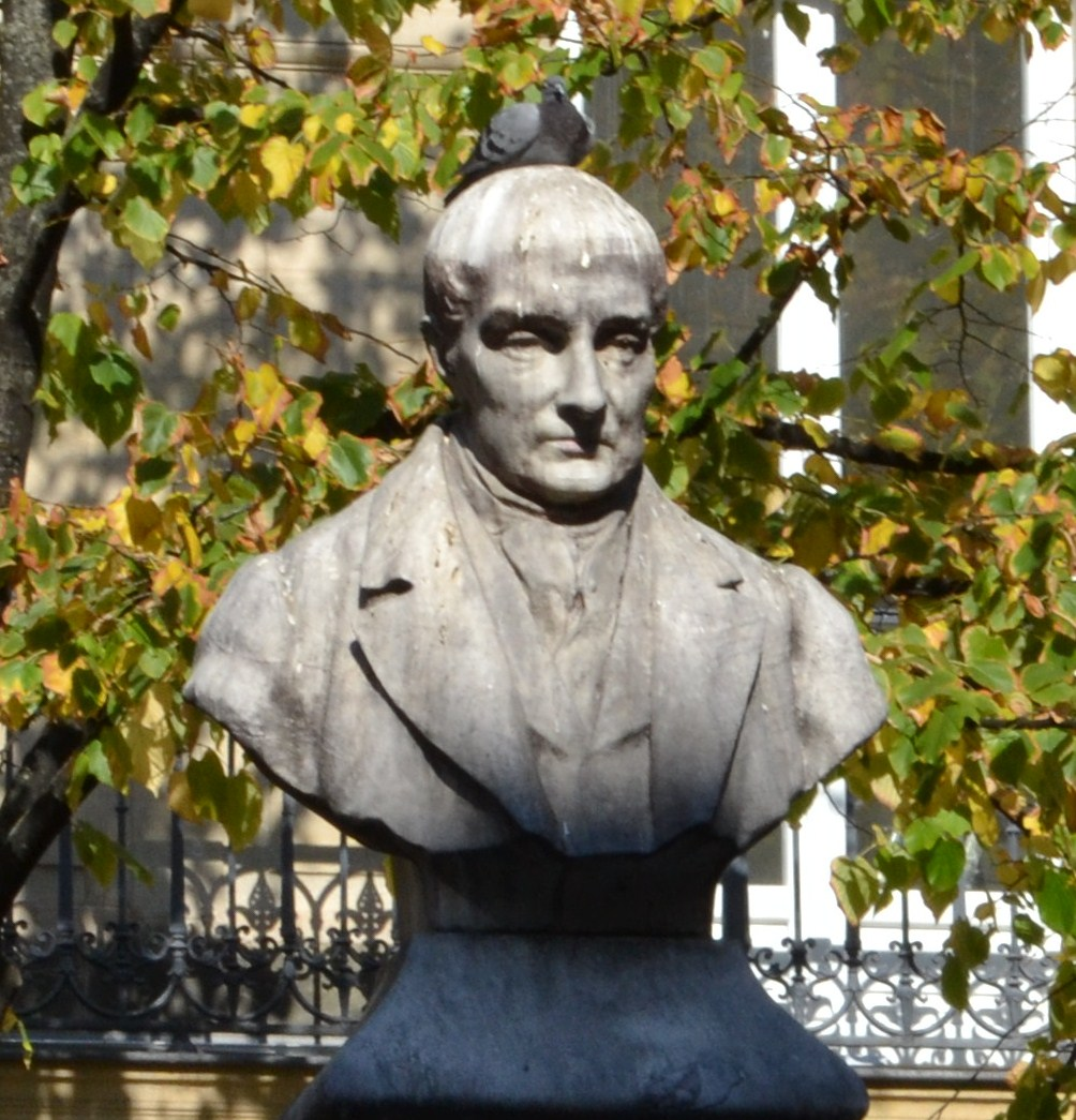 Bust of Auguste Comte in Place de la Sorbonne, Paris.